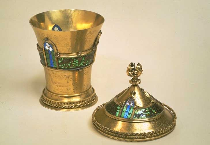 The Mérode Cuo, about 1400 V&A Museum no. 403-1872 Techniques - Silver-gilt set with plique á jour enamel plaques, and gold cell-work Dimensions - Diameter 10 cm, Height 17.5 cm Place - France